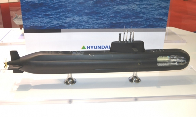 KSS3 submarine model